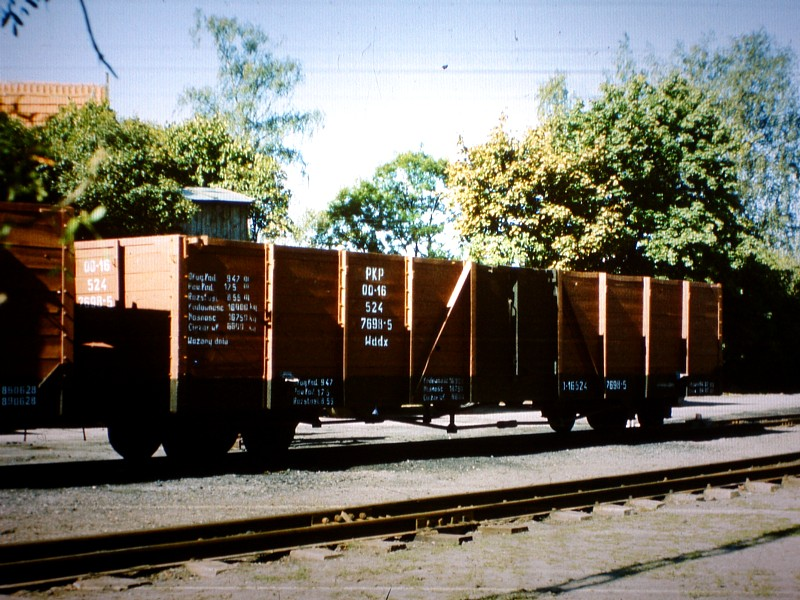 open cargo rail car by narrow gauge railways of PKP, Stegna, Poland